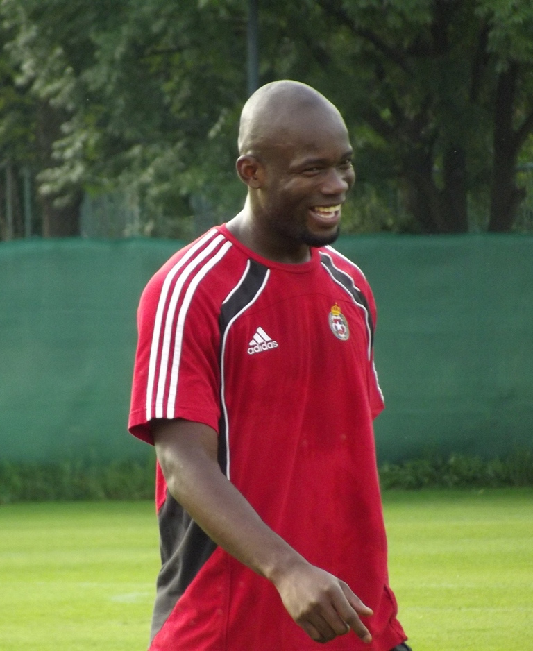 Hondurian football player Osman Chávez. Photo taken during training before Champions League 4-th qualifying round match: Wisła Kraków - APOEL F.C.